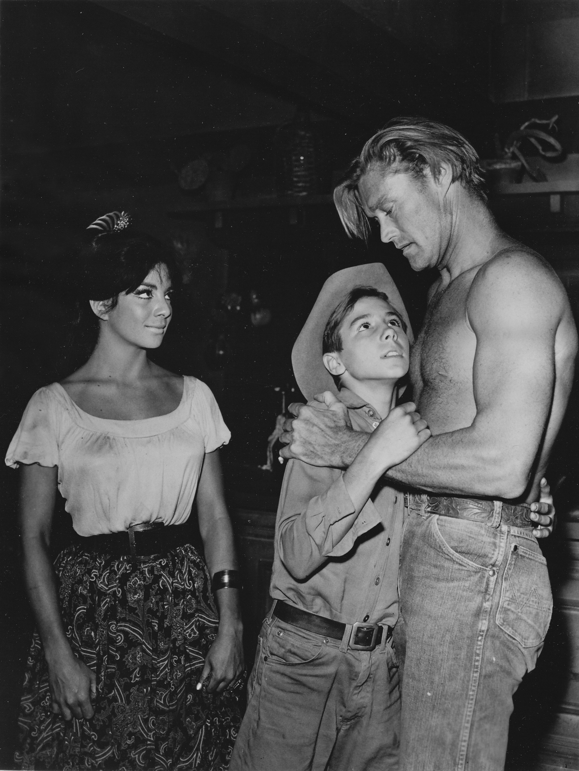 Publicity photo of television actors, (L–R) Ziva Rodann, Johnny Crawford and Chuck Connors promoting the ABC television series The Rifleman, 1961.